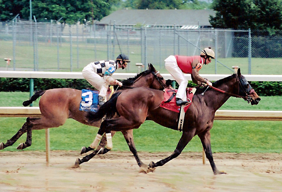 A shot of two horses running at Churchill Downs.